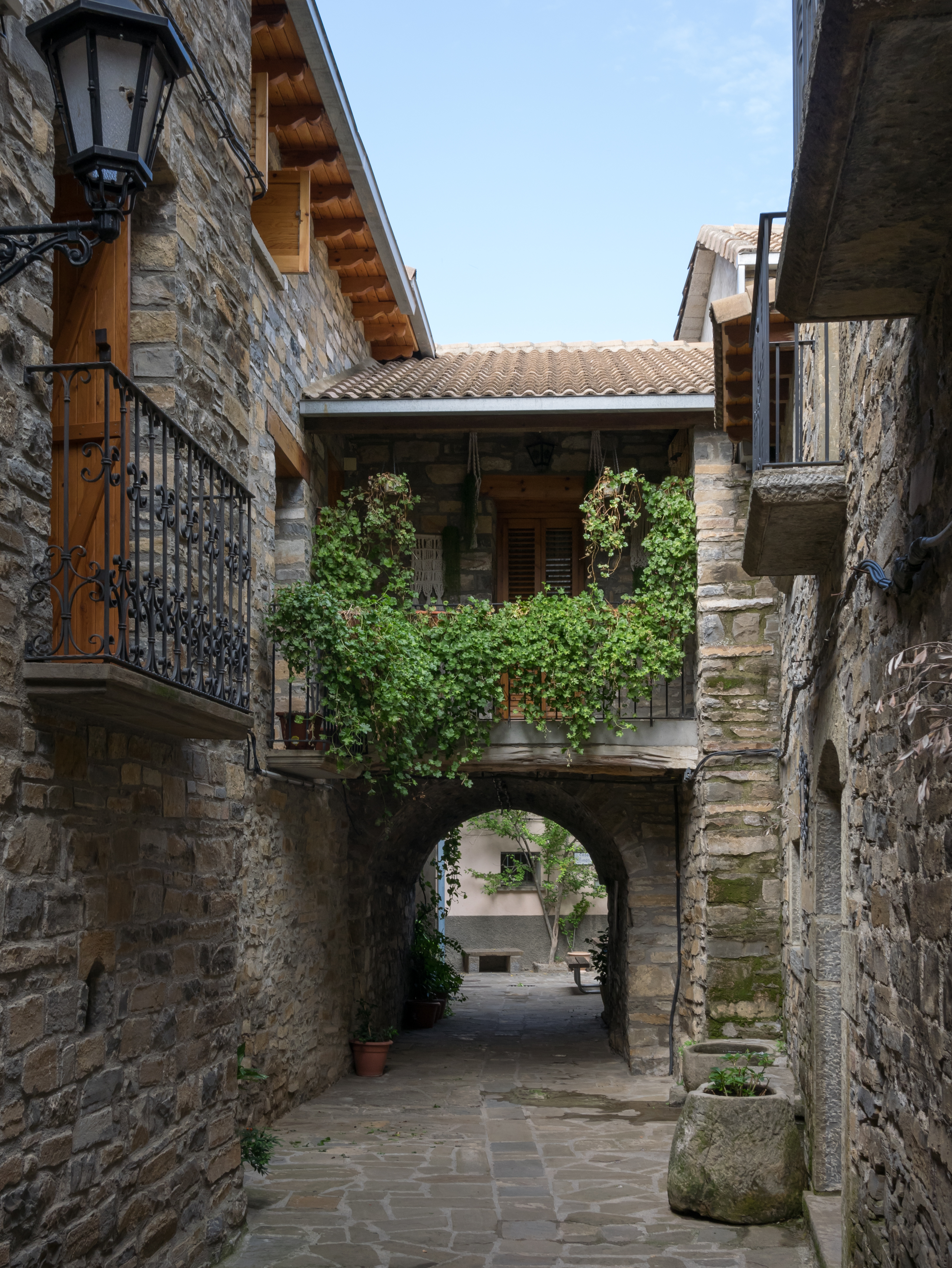 Village houses in El Pueyo de Araguás, Sobrarbe, Aragón, Spain